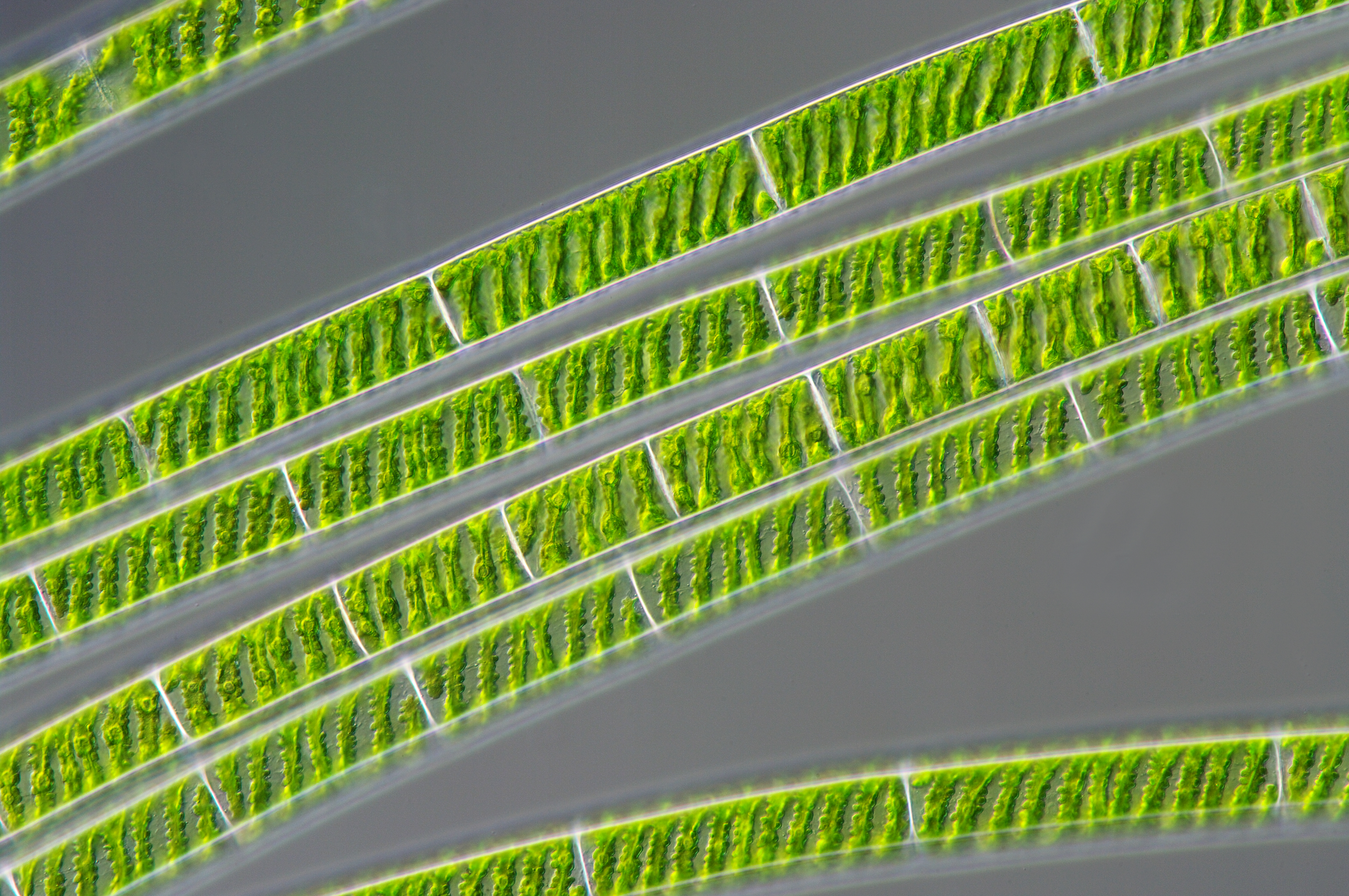 The chloroplasts from Spirogyra are twisted spirally around the cell. The genus Spirogyra has more than 200 species.